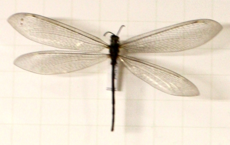 Myrmeleon formicarius Linnaeus, 1767, Europe